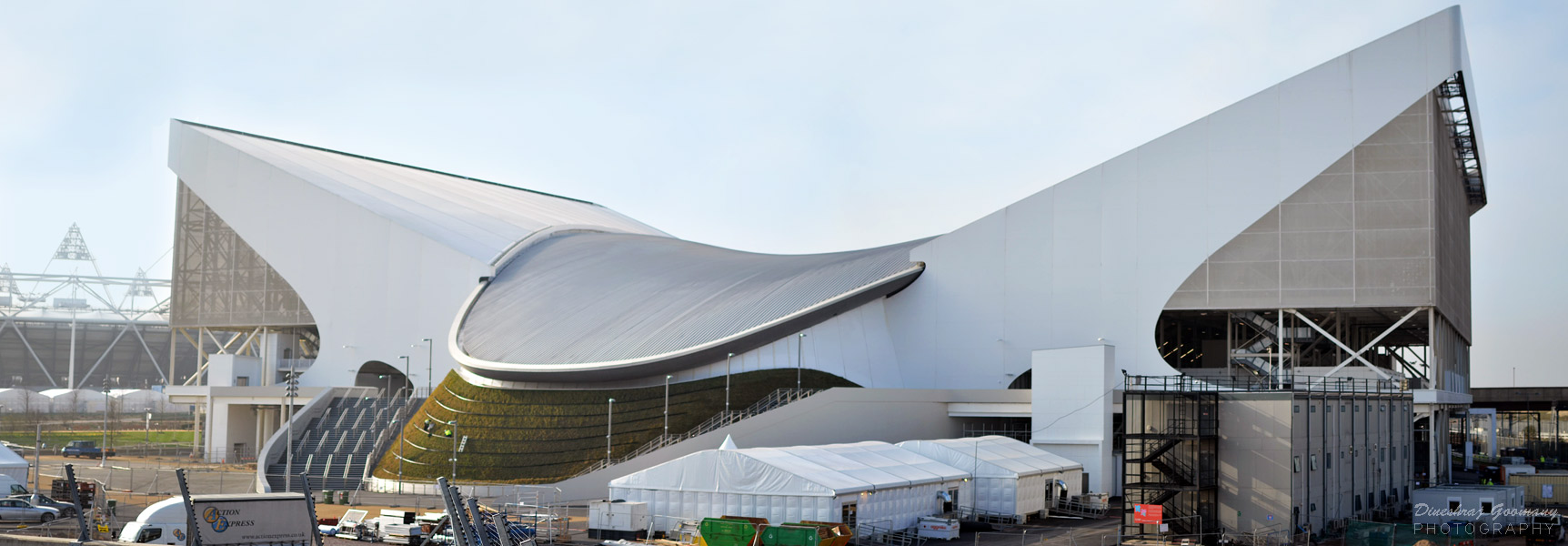 Olympic Aquatic Centre